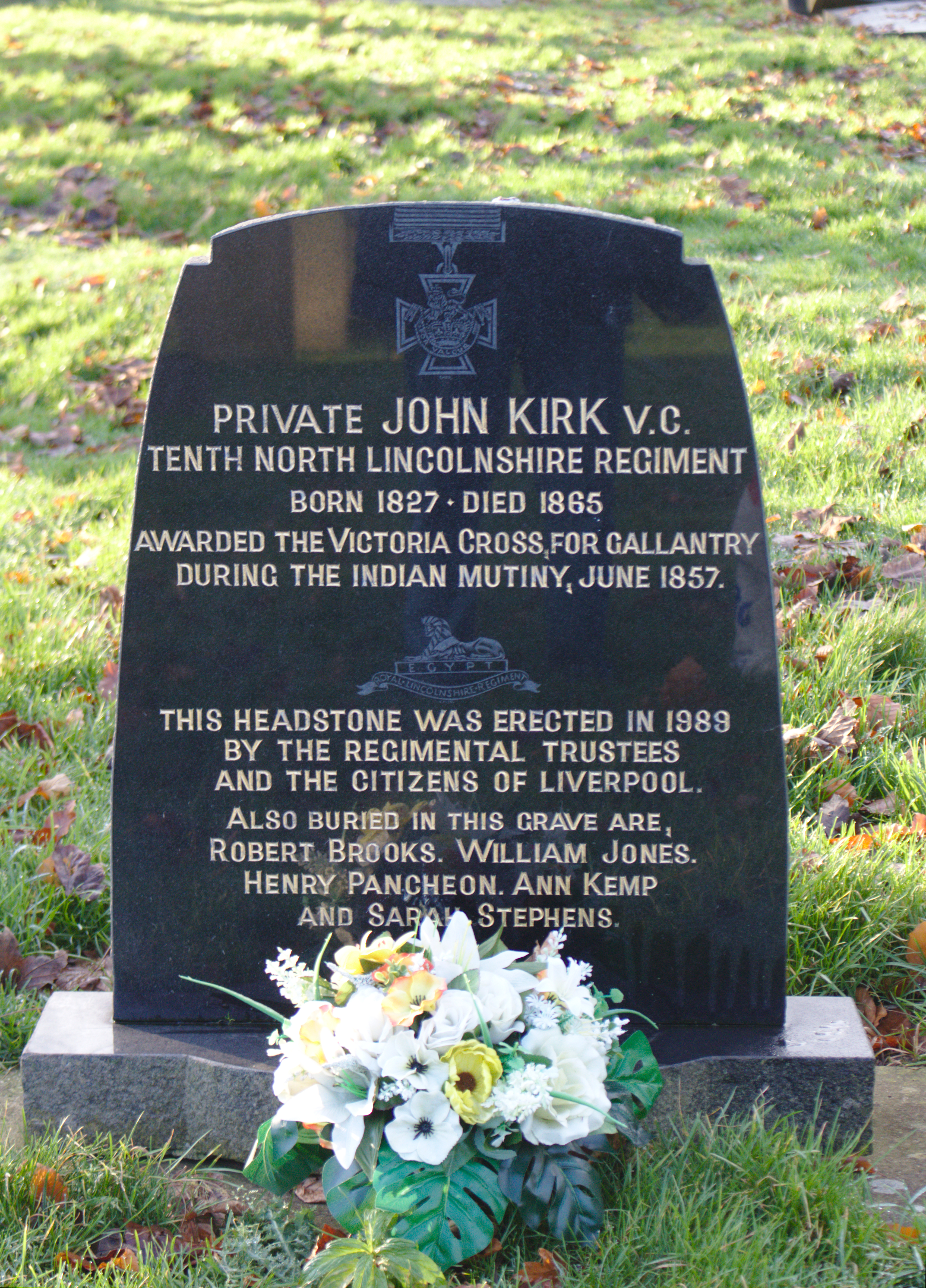 Gravestone, erected 1989, of John Kirk VC (1827 - 1865) in Anfield Cemetery. Plot CE14.2318.